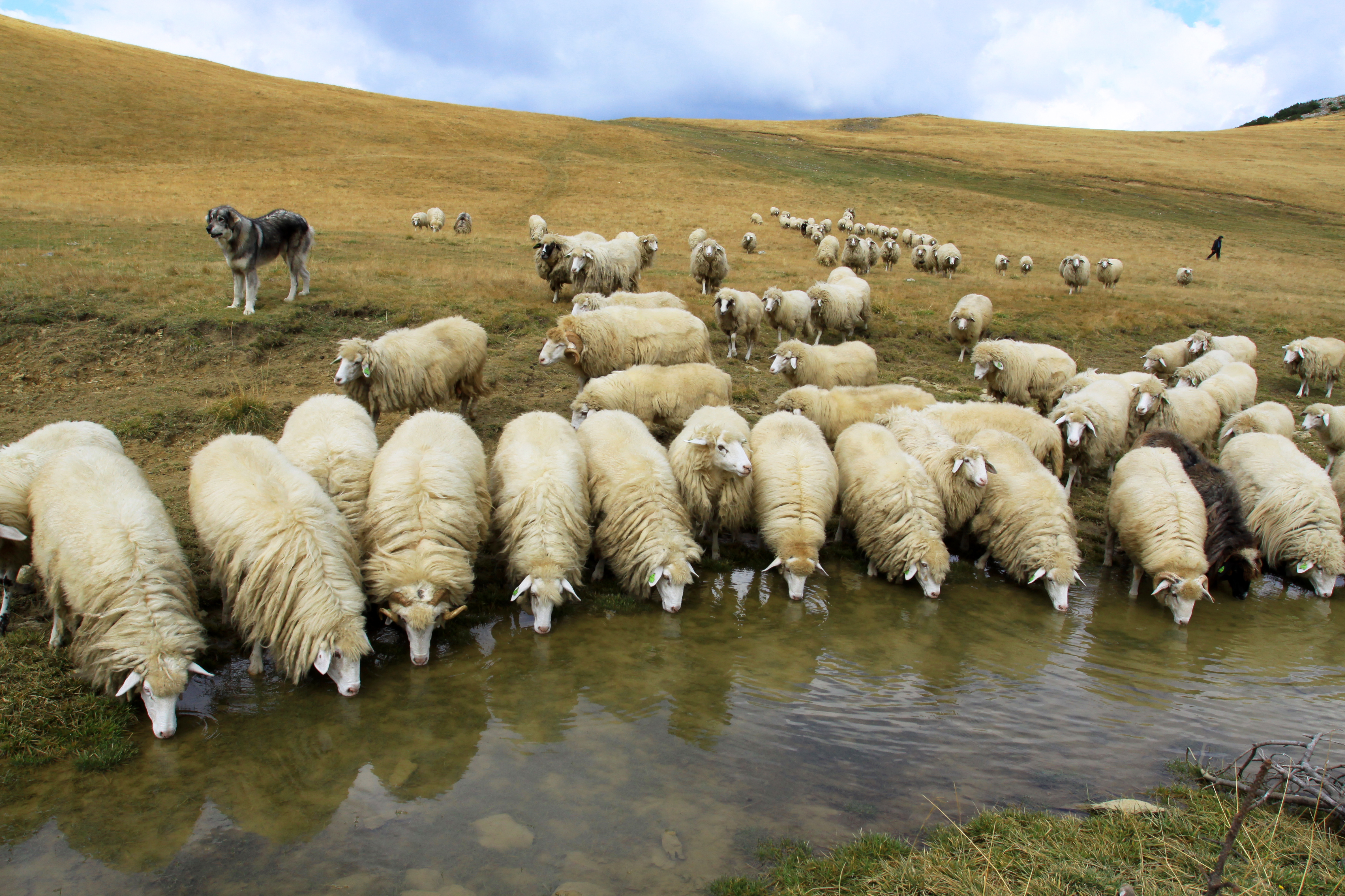 Sheep drink water from the Lumbardhi's second meadows lake located close to red Rock summit